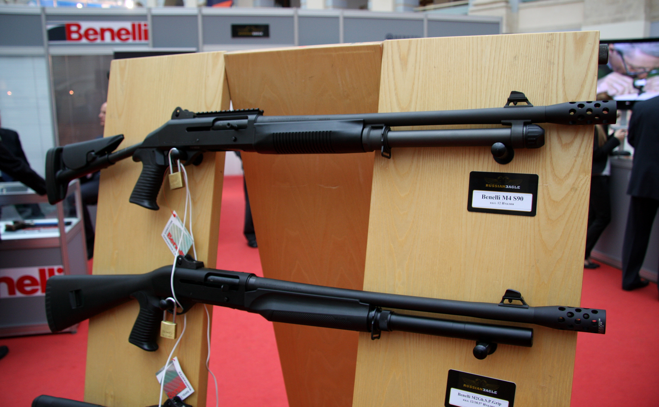 Benelli